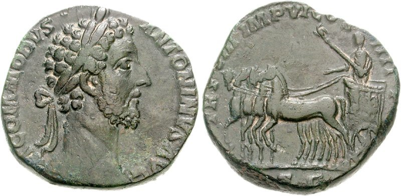 Commodus. AD 177-192. Æ Sestertius (24.21 g, 2h). Rome mint. Struck AD 183. Laureate head right Commodus, holding eagle-tipped scepter, standing in triumphal quadriga left. RIC III 376; MIR 18, 564-6/30; Banti 471.